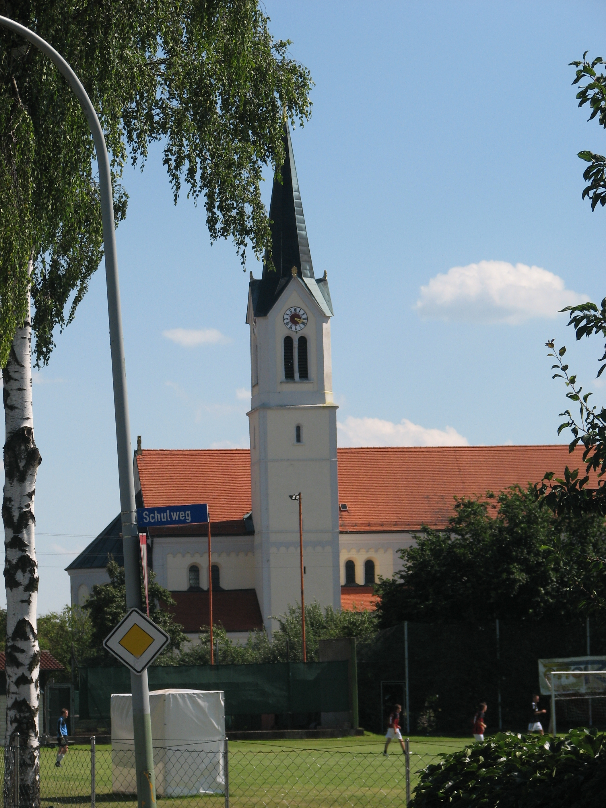 Church of Otzing